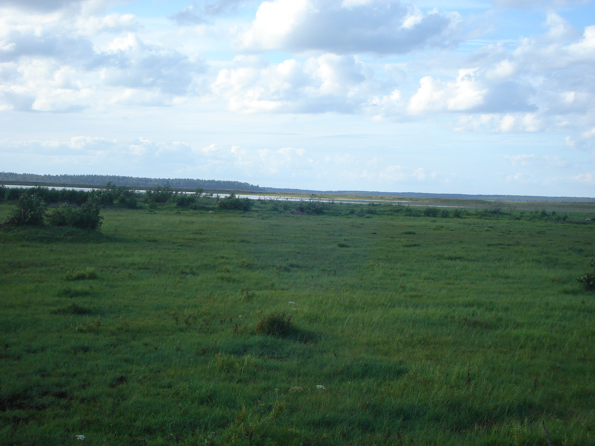 Engure parish, LV-3113, Latvia